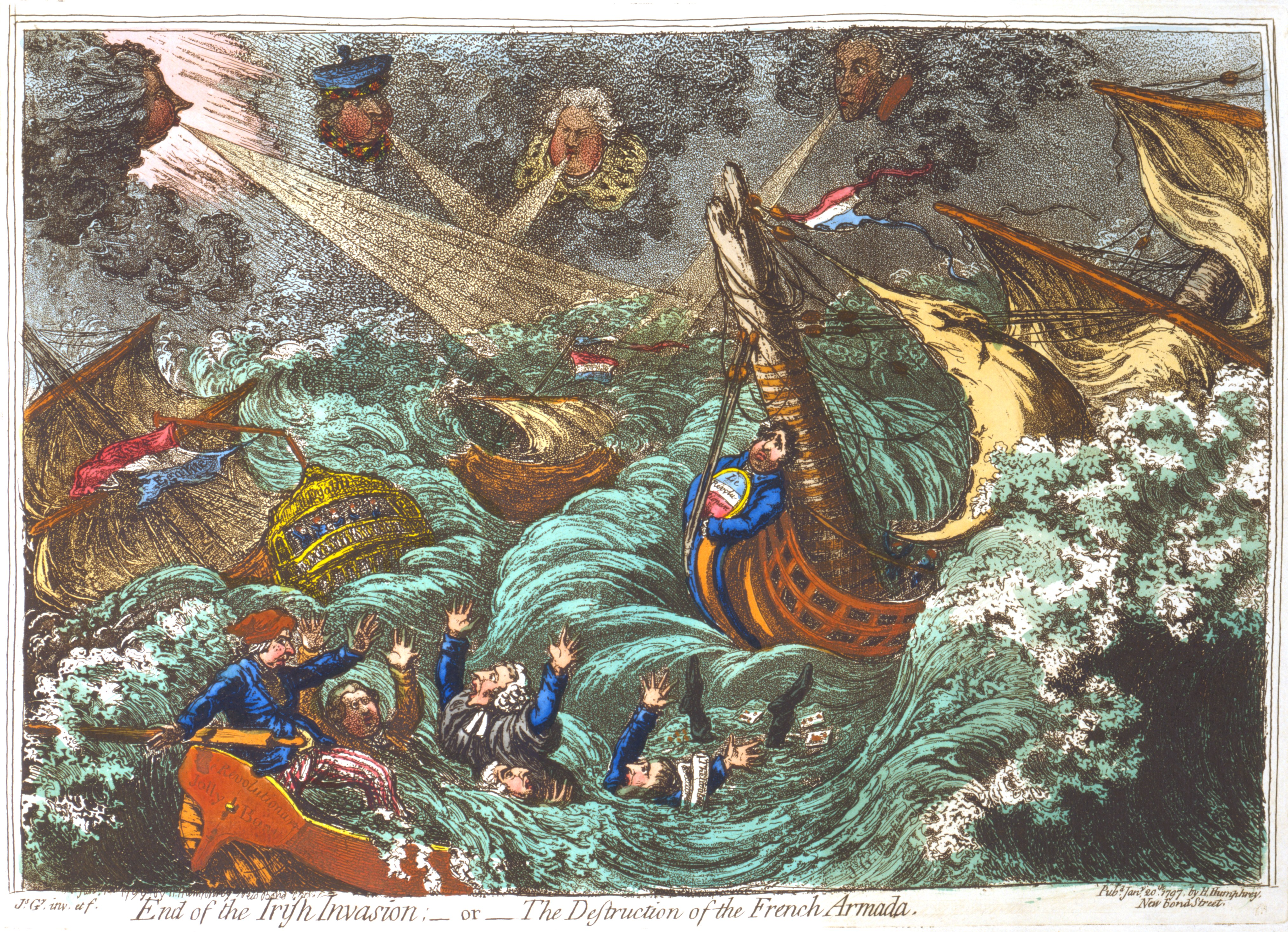 End of the Irish Invasion ; — or — the Destruction of the French Armada Js. Gillray, inv. et f. SUMMARY: French warships, labeled Le Révolutionaire, L'Egalité and The Revolutionary Jolly Boat, being tossed about during a storm blown up by Pitt, Dundas, Grenville and Windham, whose heads appear from the clouds. Charles Fox is the figurehead on Le Révolutionaire which is floundering with broken mast. The Revolutionary Jolly Boat is being swamped, throwing Sheridan, Hall, Erskine, M.A. Taylor and Thelwall overboard. MEDIUM: 1 print : etching, hand-colored. CREATED/PUBLISHED: [London] : H. Humphrey, 1797 Jany. 20th. According to Wright & Evans, Historical and Descriptive Account of the Caricatures of James Gillray (1851, OCLC 59510372), pp. 89–90, "On the French expedition to Bantry Bay, at the end of 1796. Pitt, Dundas, Grenville, and Windham are the four winds which blow up the storm to destroy the invaders. FFox, as the carved figure at the head of the Revolution, is represented as influencing the United Irishmen. The crew of the jolly-boat are Sheridan, Liberty Hall, Erskine, M. A. Taylor, and Thelwall, who, it is insinuated, were all approvers, at least, of the Irish rebellion."